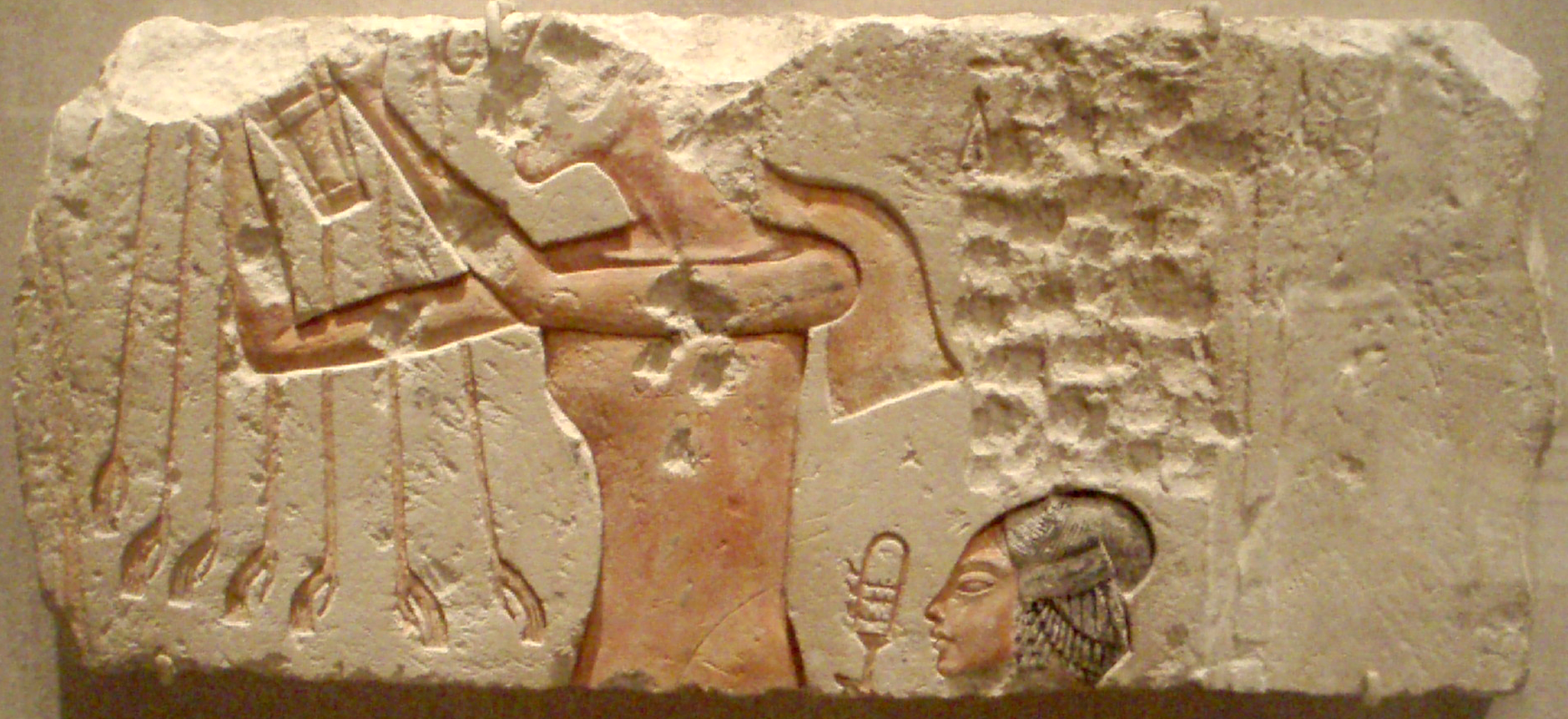 Akhenaten and a daughter making an offering to the Aten.